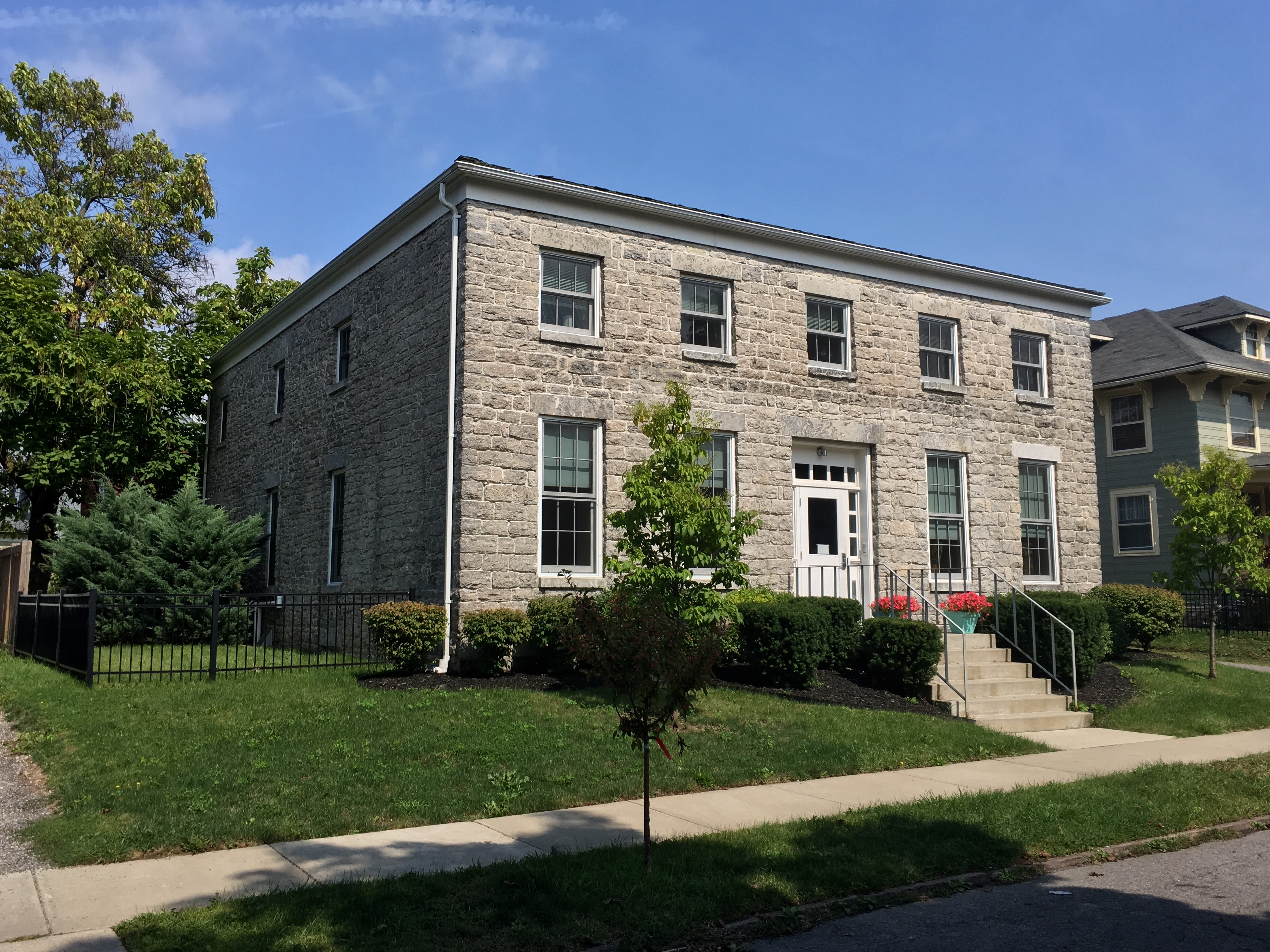 The Stone Farmhouse at 60 Hedley Place, Buffalo, New York, September 2019. For use as a replacement for the nearly 10-year-old photo currently on the associated Wikipedia page.